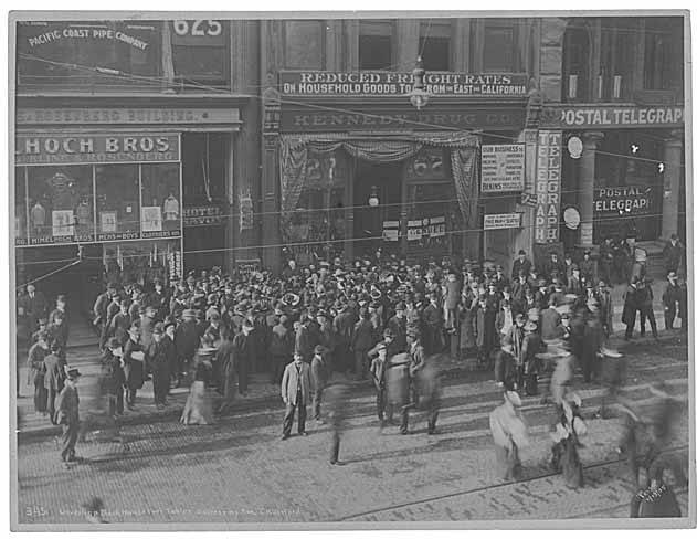 Caption on image: Unveiling Blockhouse Fort tablet, address by Hon. C.H. Hanford. Peiser. 11/13/05. 345 . Signs in image include: Pacific Coast Pipe Company . Himeloch Bros. Reduced Freight Rates on Household Goods [...] Kennedy Drug Co . Postal Telegraph . Bekins Moving and Storage Co . Handwritten on verso: 1st Ave. and Cherry St. Tablet unveiling on site Blockhouse Fort . Peiser 345 Subjects (LCTGM): Historical markers--Washington (State)--Seattle; Plaques--Washington (State)--Seattle; Dedications--Washington (State)--Seattle; Crowds--Washington (State)--Seattle